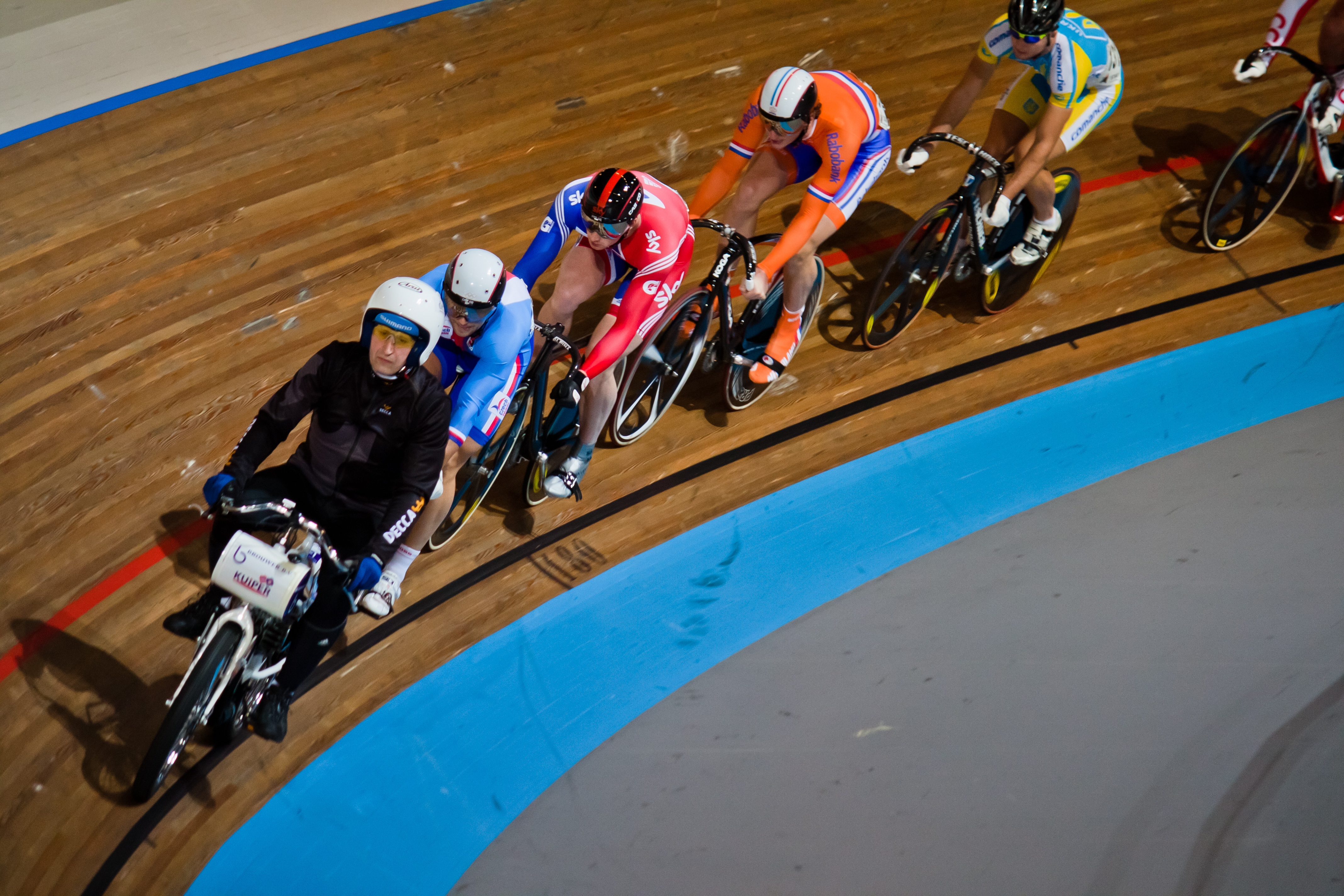 Men's keirin qualiying, heat 2. Adam Ptacnik (CZE#, Matthew Crampton #GBR#, Hugo Haak #NED# & Andril Kutsenko #UKR). At the 2011 European Elite Track Cycling Championships in Apeldoorn, Netherlands.